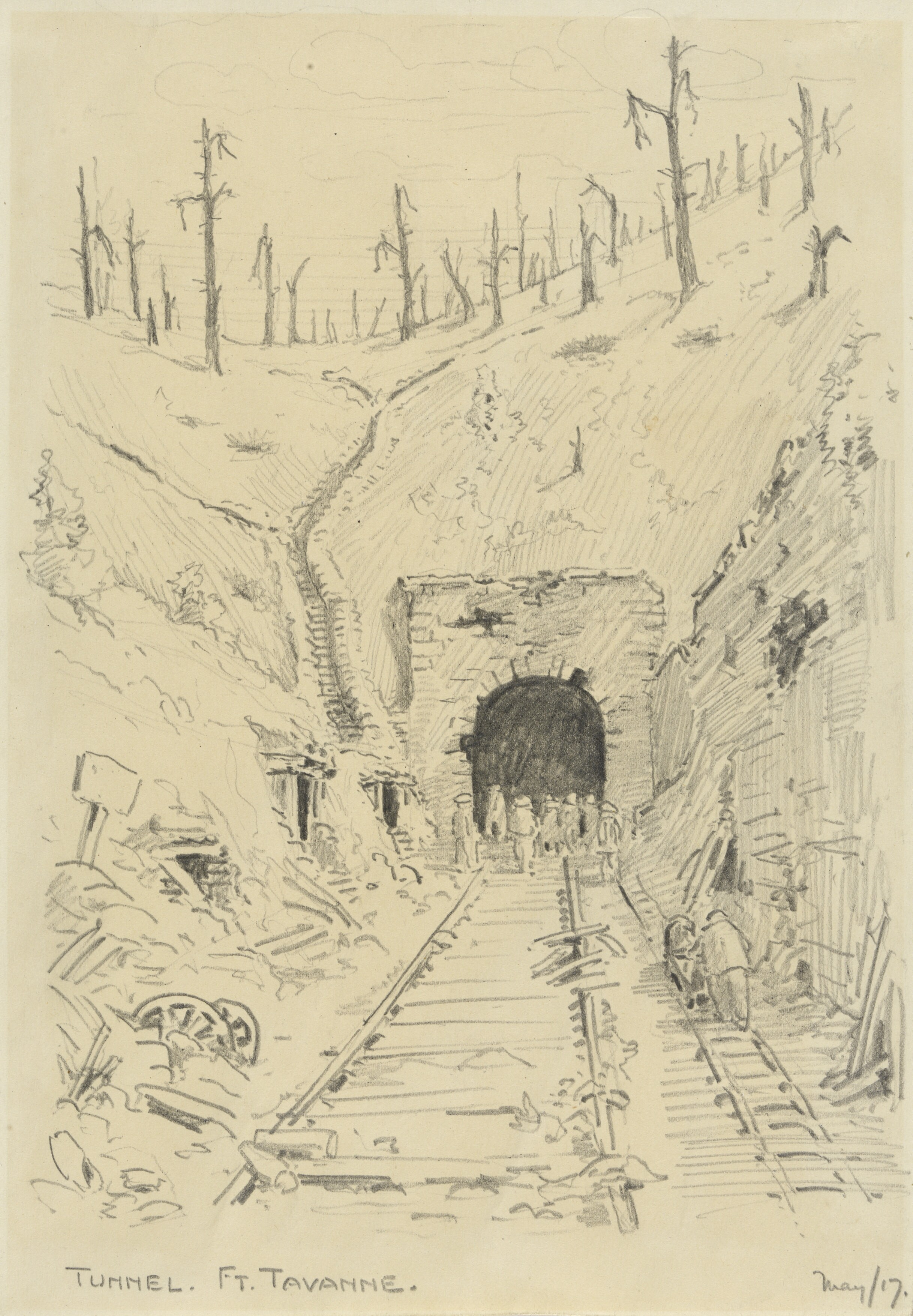 The Tunnel, Fort Tavenne image: a view along railway tracks leading into a large tunnel built through a hillside. A man pushes a cart along a narrower set of tracks that runs parallel to the railway, with various debris littering the foreground. A group of men stand immediately in front of the tunnel entrance, with three dug-outs carved into the bank to the left. Bomb damaged trees, reduced to stumps, dot the top of the hill in the upper part of the composition.